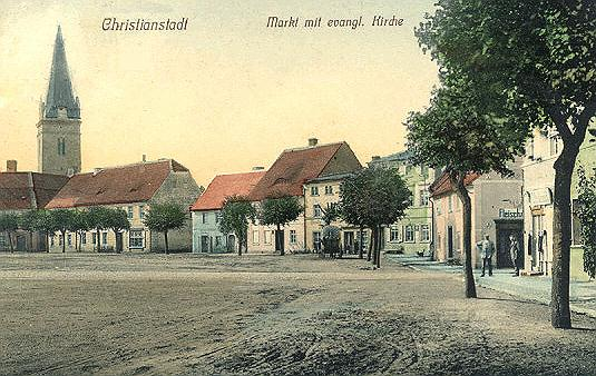 market place in Christianstadt (Neumark), about 1900; today Krzystkowice, town of Nowogród Bobrzański in Poland